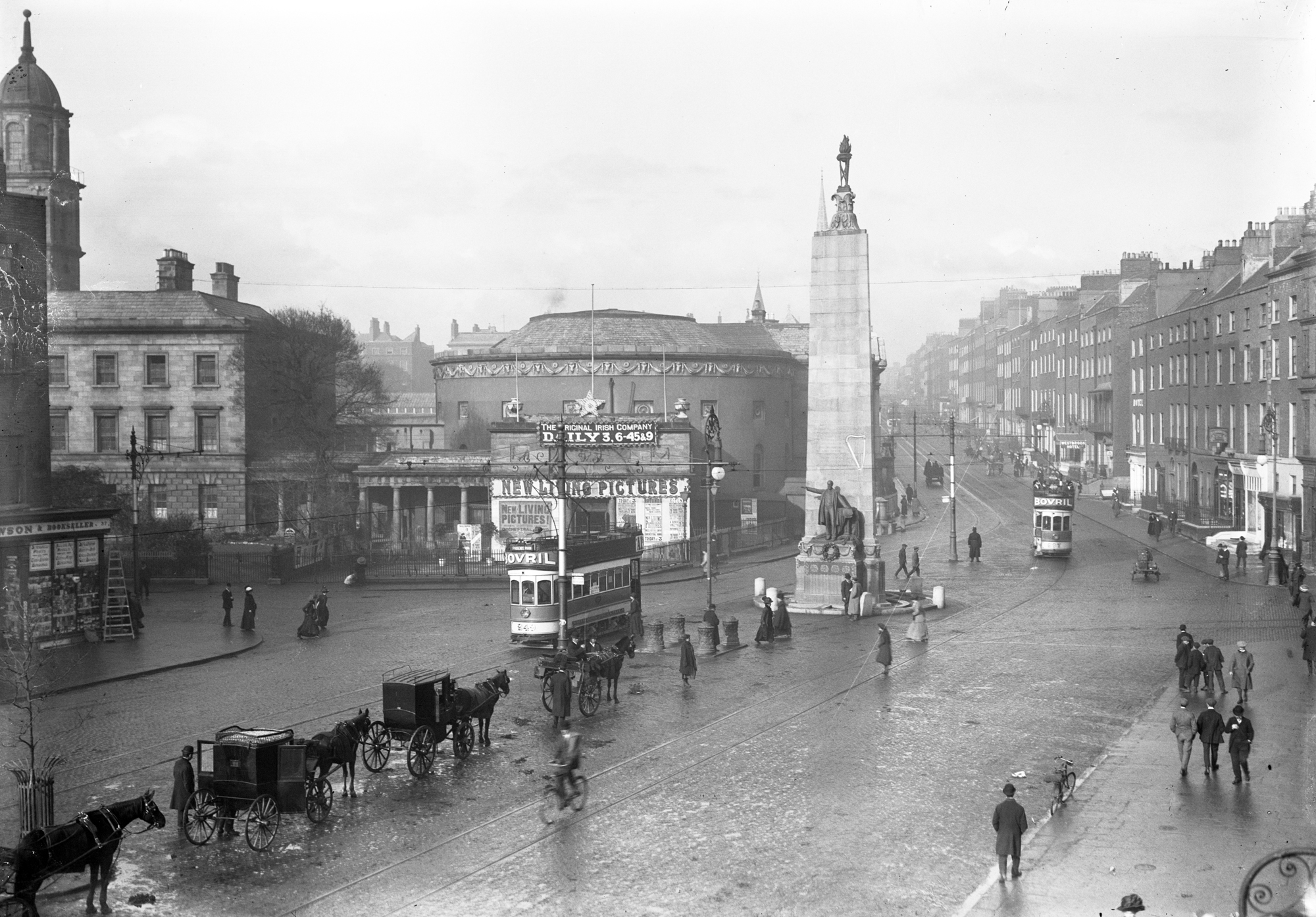 It's killing me that I can't read the detail on the posters outside the Rotunda Round Room, but thought you might like this one in any case... There're our gorgeous "bollards" again, and I'm wondering if the garland on the monument can help at all with dating? Date: Circa Spring 1913 (thank you Denis Condon) NLI Ref.: EAS_1681